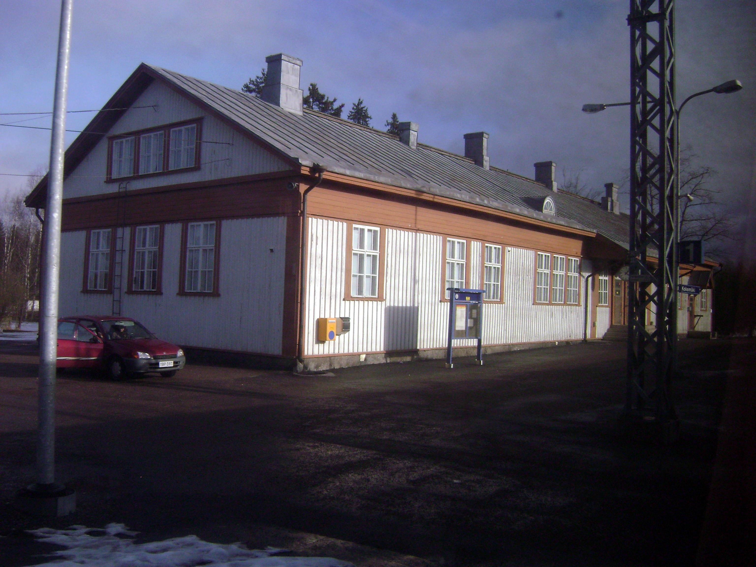 Kokemäki railway station in Kokemäki, Finland